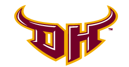 Cal State Dominguez Hills Toros wordmark